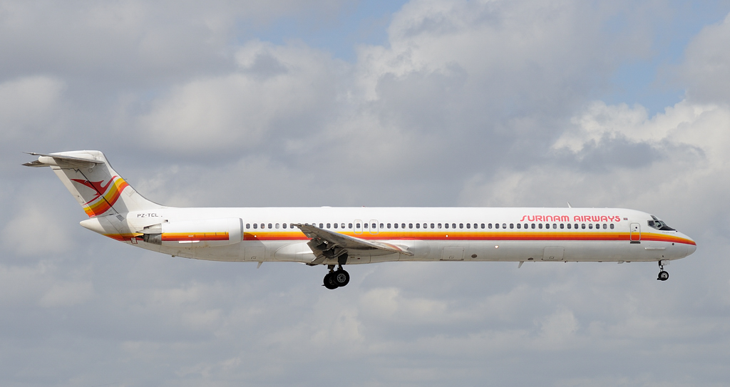 Surinam Airways McDonnell Douglas MD-82landing at Miami International (KMIA)